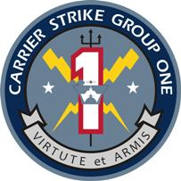 Carrier Strike Group ONE logo.